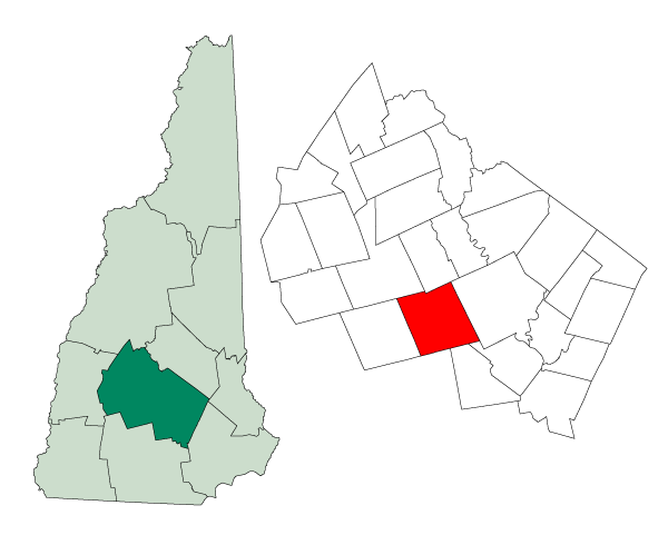 Map of a municipality in Merrimack County, New Hampshire